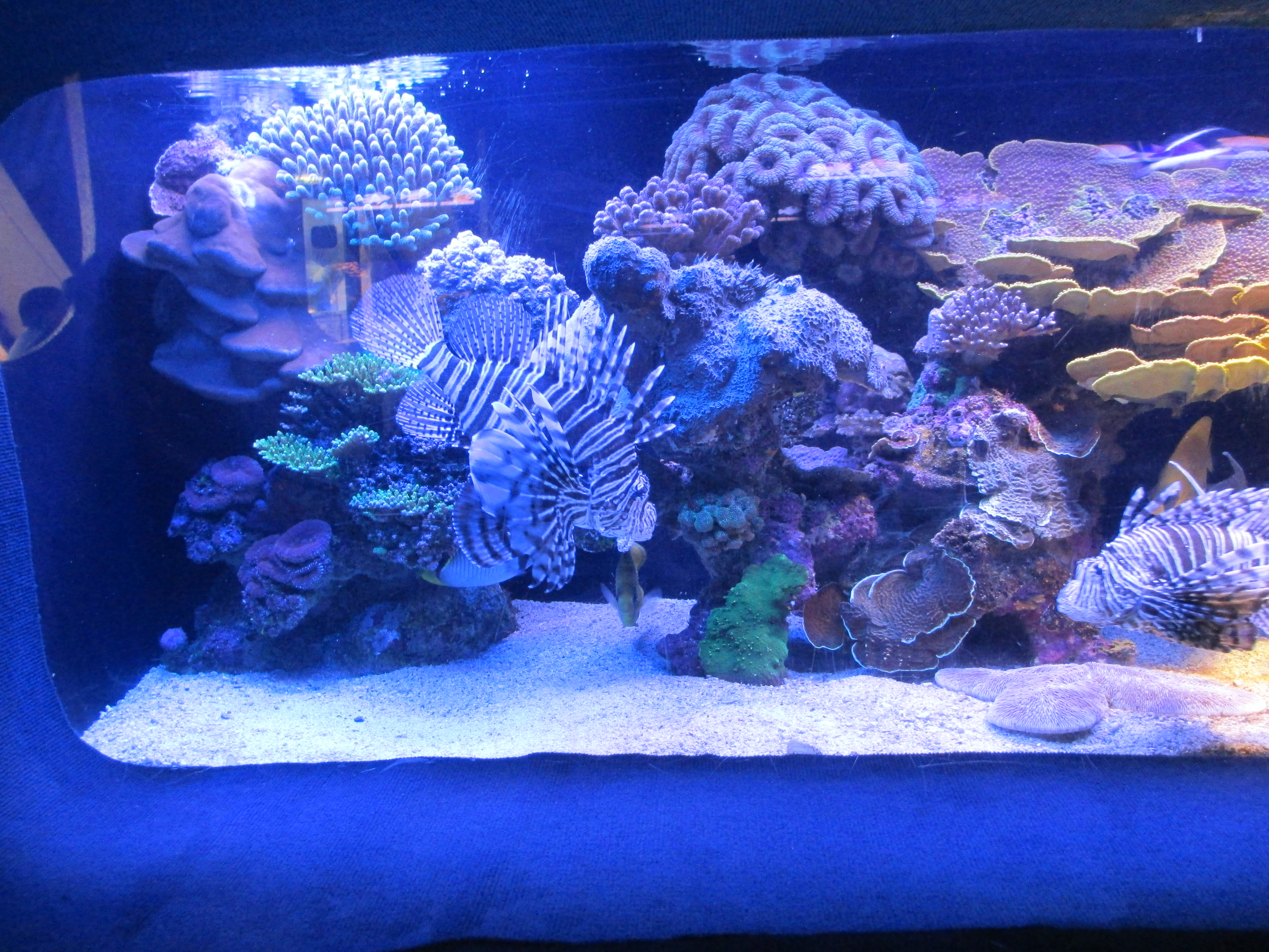 Pterois miles in Eilat